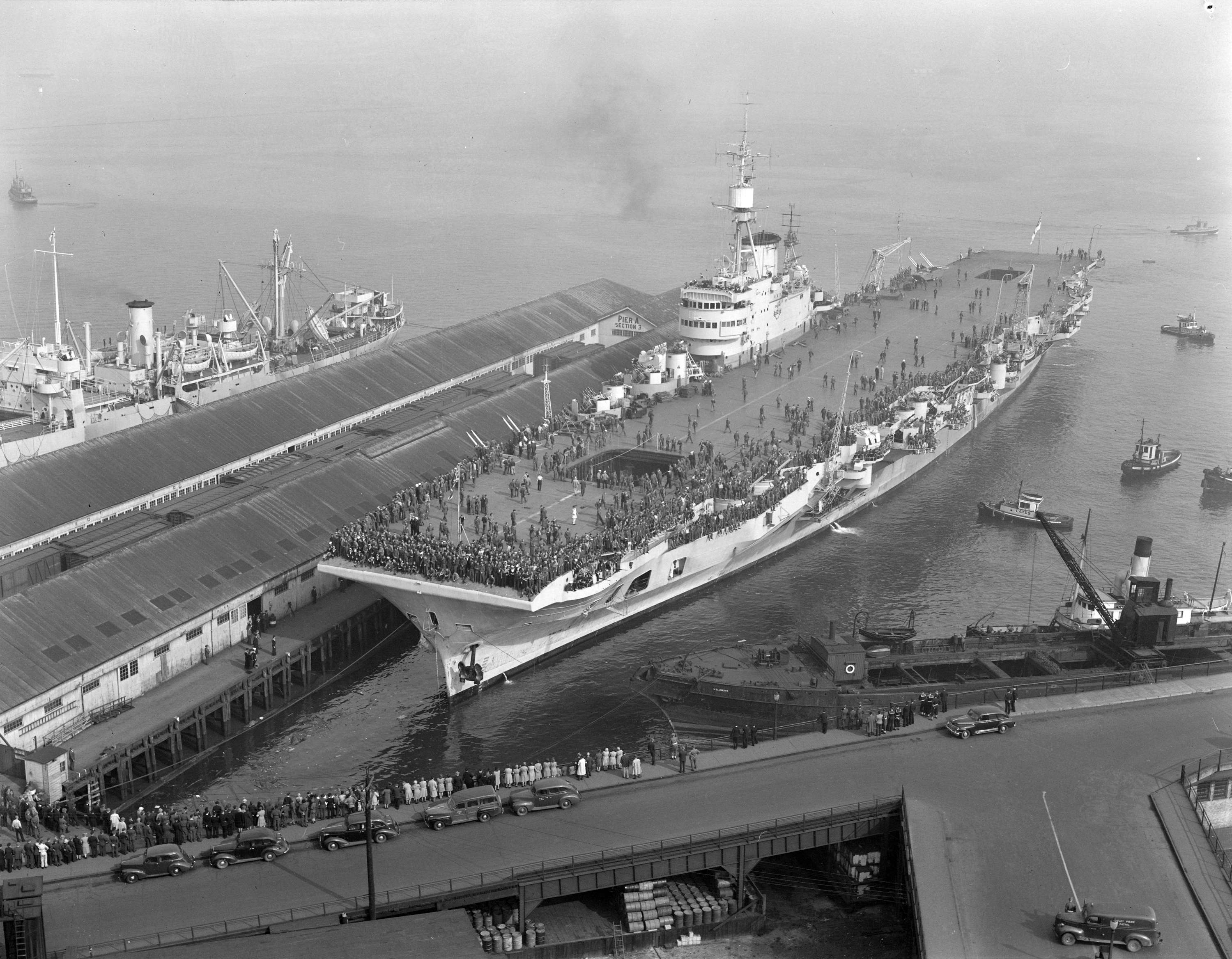 Original caption: "H.M.C.S. Warrior at dock". This ship is misidentified by the image source, it is actually HMS Implacable (R86).